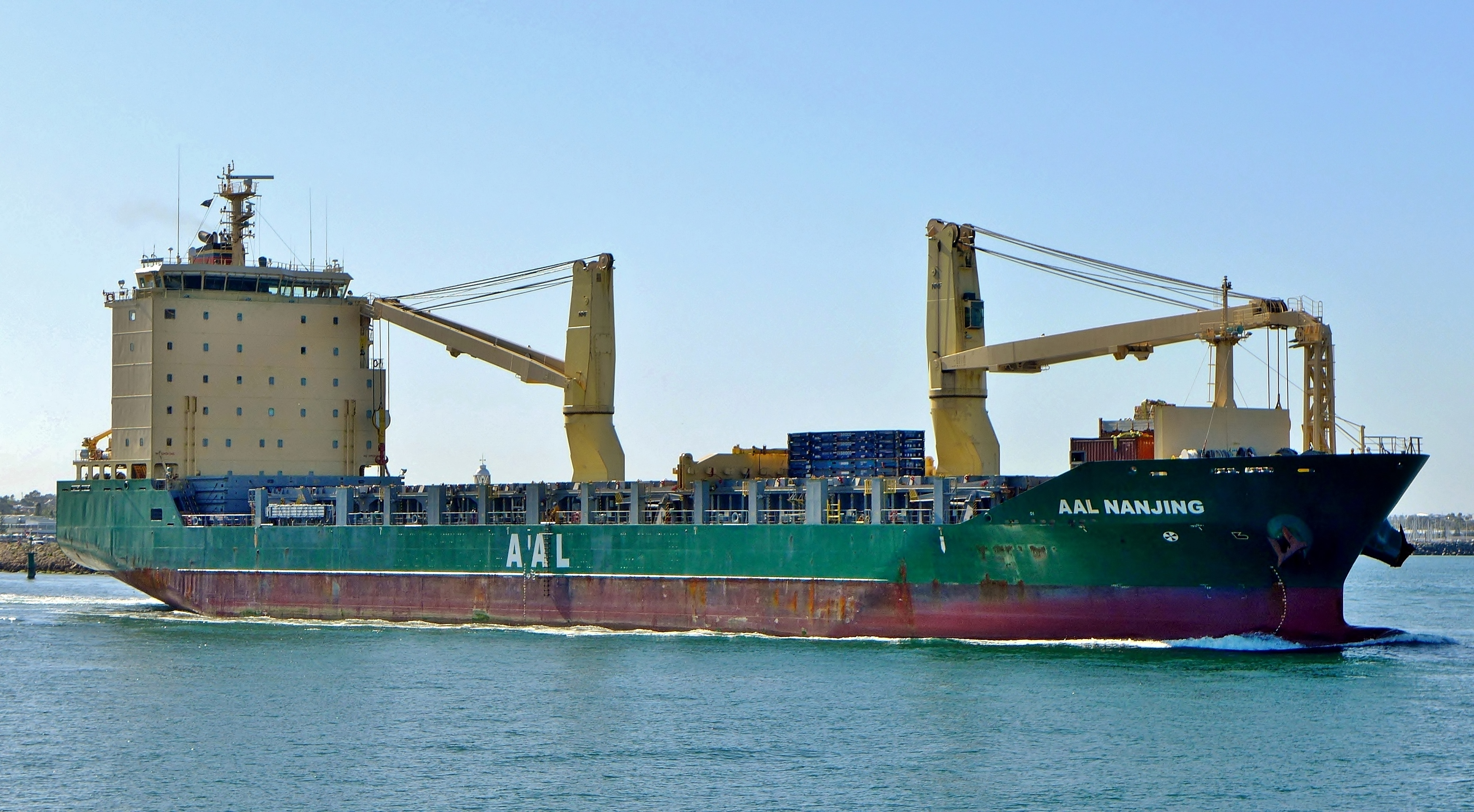 General cargo ship AAL Nanjing departing from the inner harbour of Fremantle Harbour, Western Australia.